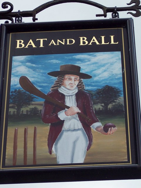 Sign for the Bat and Ball, Breamore Bat and Ball originally referred to an old English game similar to rounders. The pub's sign is based on the famous painting The Boy with the Bat, which can be seen at Breamore House.